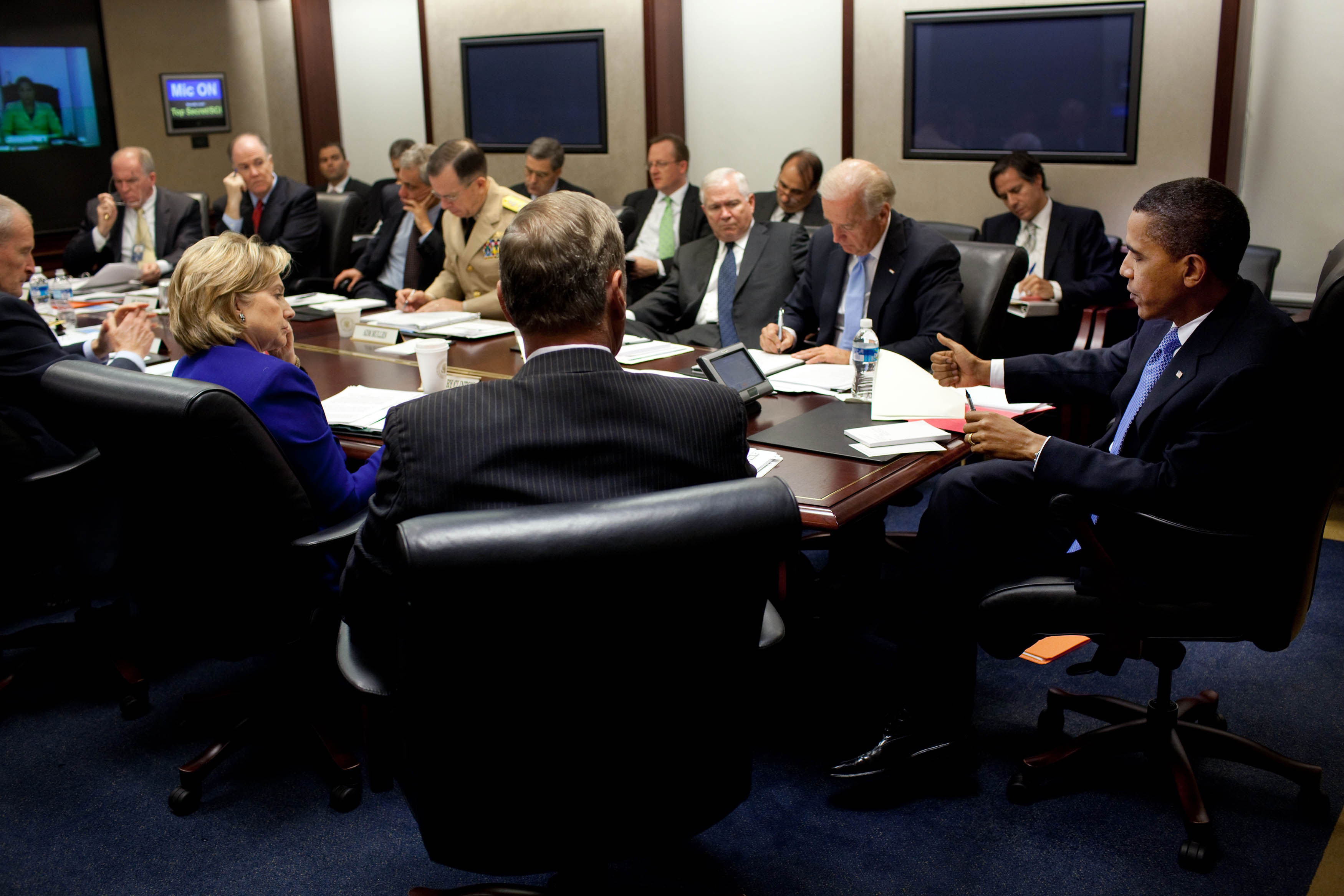 President Barack Obama holds a strategy review on Afghanistan in the Situation Room of the White House, Sept. 30, 2009. (Official White House Photo by Pete Souza).